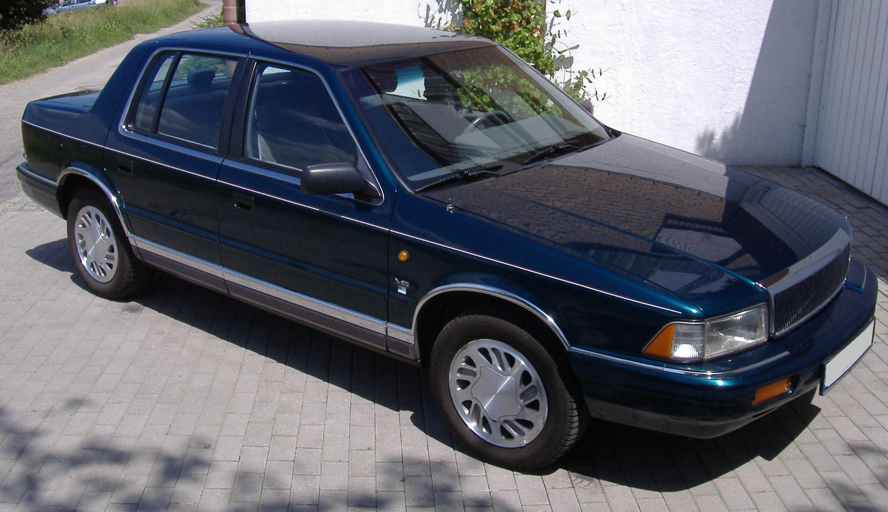 German Saratoga LE front & side